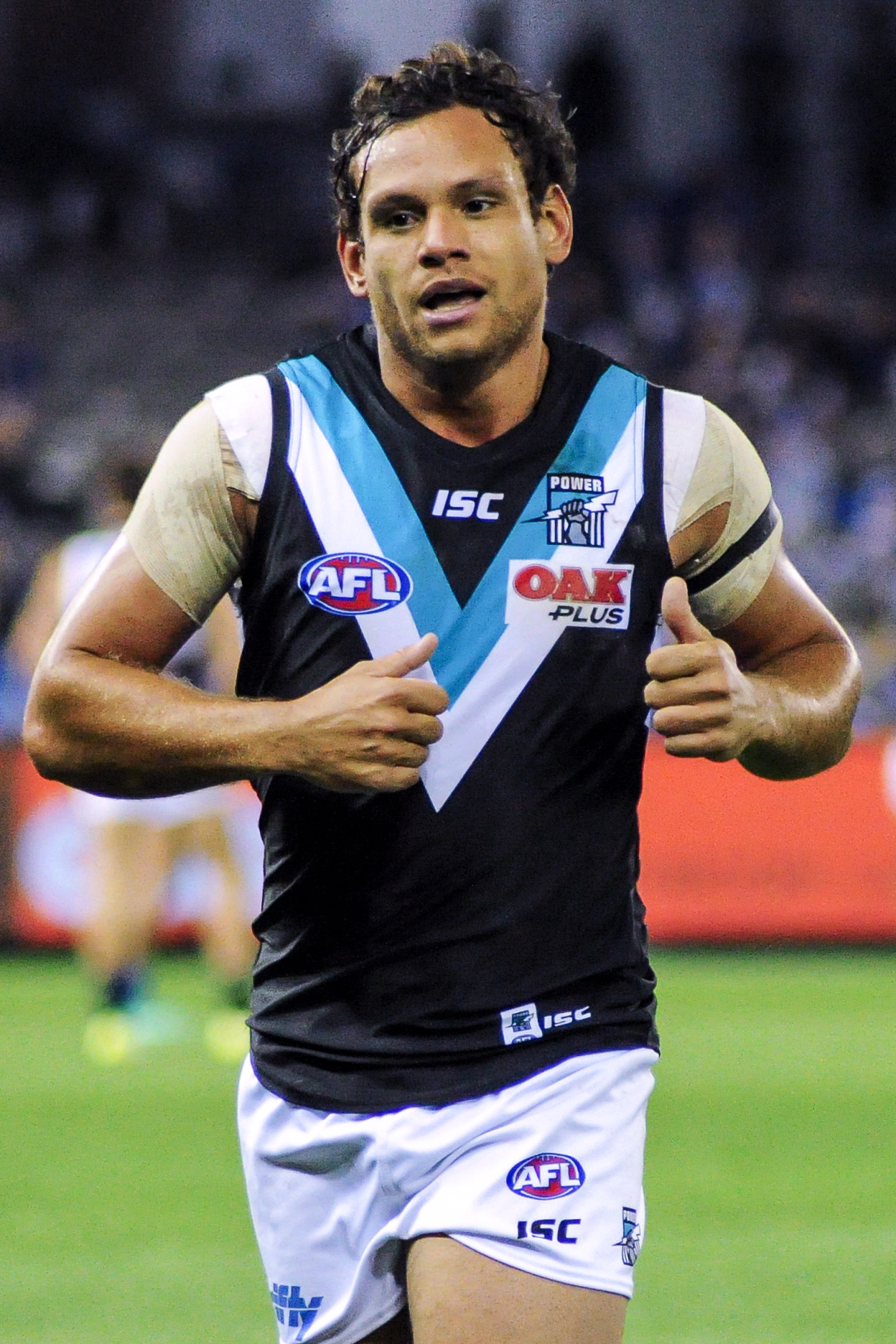 Steven Motlop during the AFL round six match between North Melbourne and Port Adelaide on Saturday, 28 April 2018 at Etihad Stadium in Melbourne, Victoria.